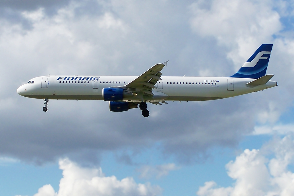 OH-LZF A321 Finnair